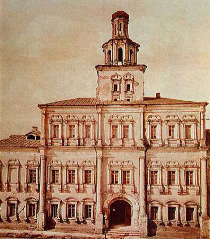 Moscow University the 1st building XVIII century Фасад первого здания Московского Университета в эпоху правления Елизаветы, XVIII век